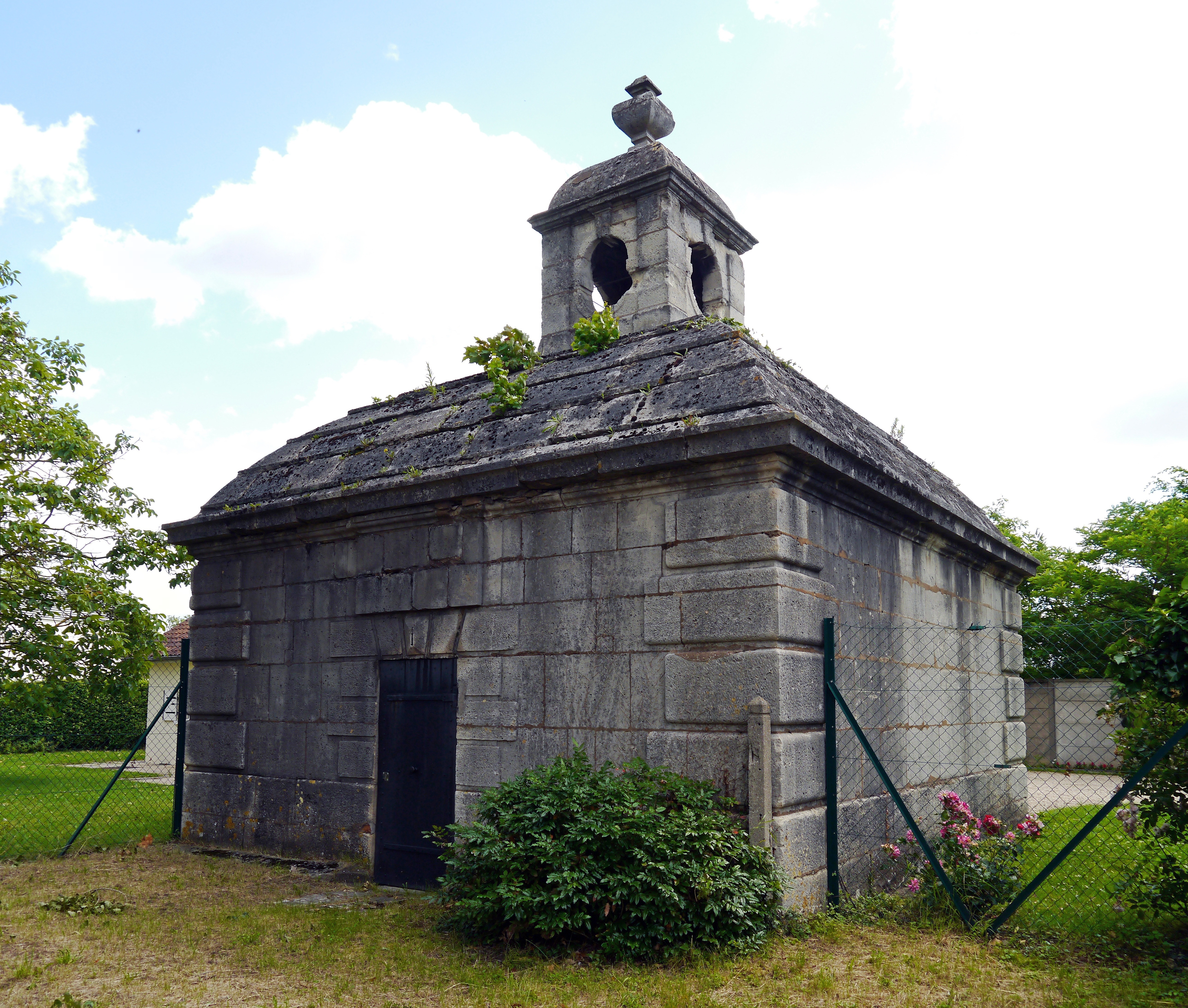 Rungis, Val-de-Marne, France. Regard Louis-XIII from aqueduc Médicis.